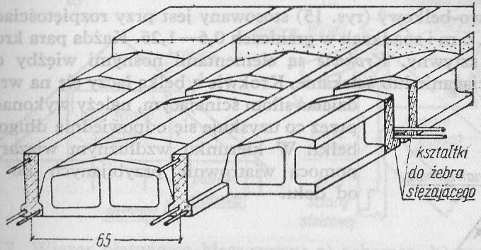 DMS-slab (Poland).